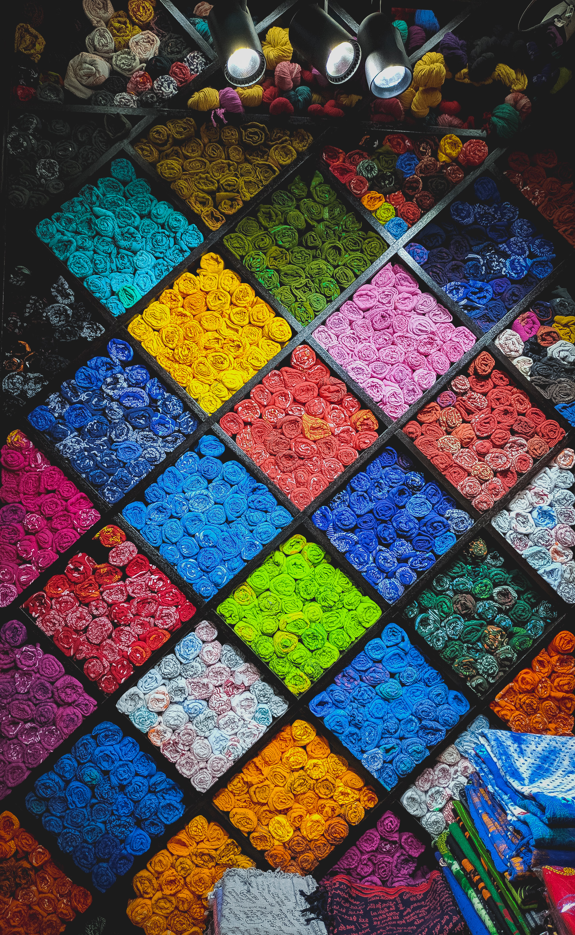 Dupatta, Chunari, Chunariya, or Audhani, is a shawl-like scarf, women's traditionally essential clothing from the Indian subcontinent. The dupatta is currently used most commonly as part of the women's shalwar kameez costume, and worn over the kurta and the gharara. This photo was taken in Aziz Super Market in Dhaka, Bangladesh. Which is one of the famous wholesale market for Dupatta in Bangladesh.